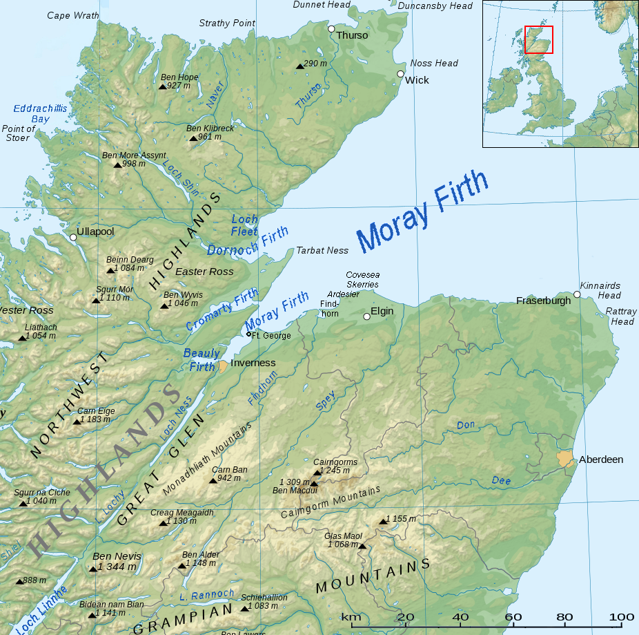 Topographic map of Scotland in German